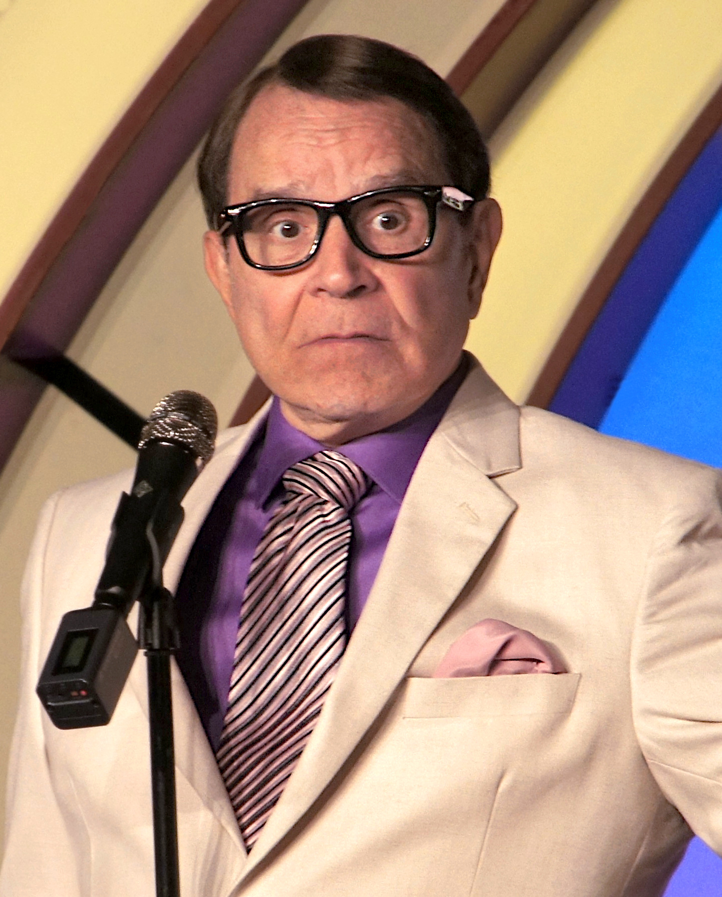 Rich Little as "Jack Benny" photo by James DeFrances 2015